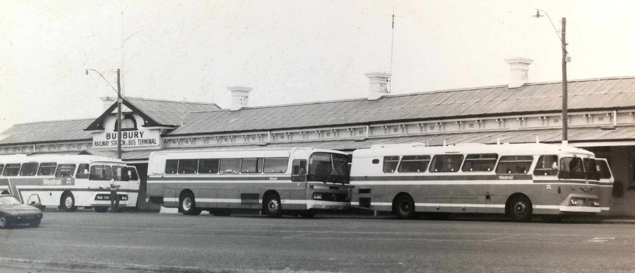 Old Bunbury railway station - with 3 different style Westrail passenger buses - copy of pre-digital photo